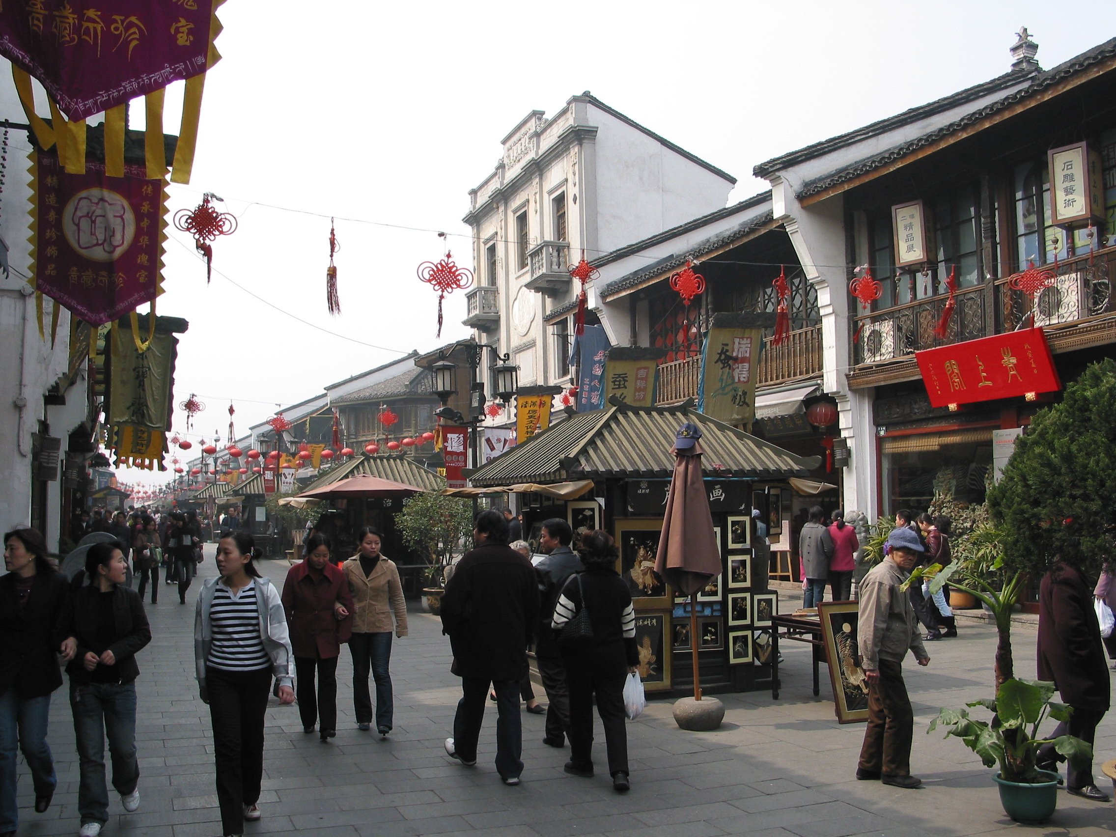 An old style shopping street in Hangzhou, China.